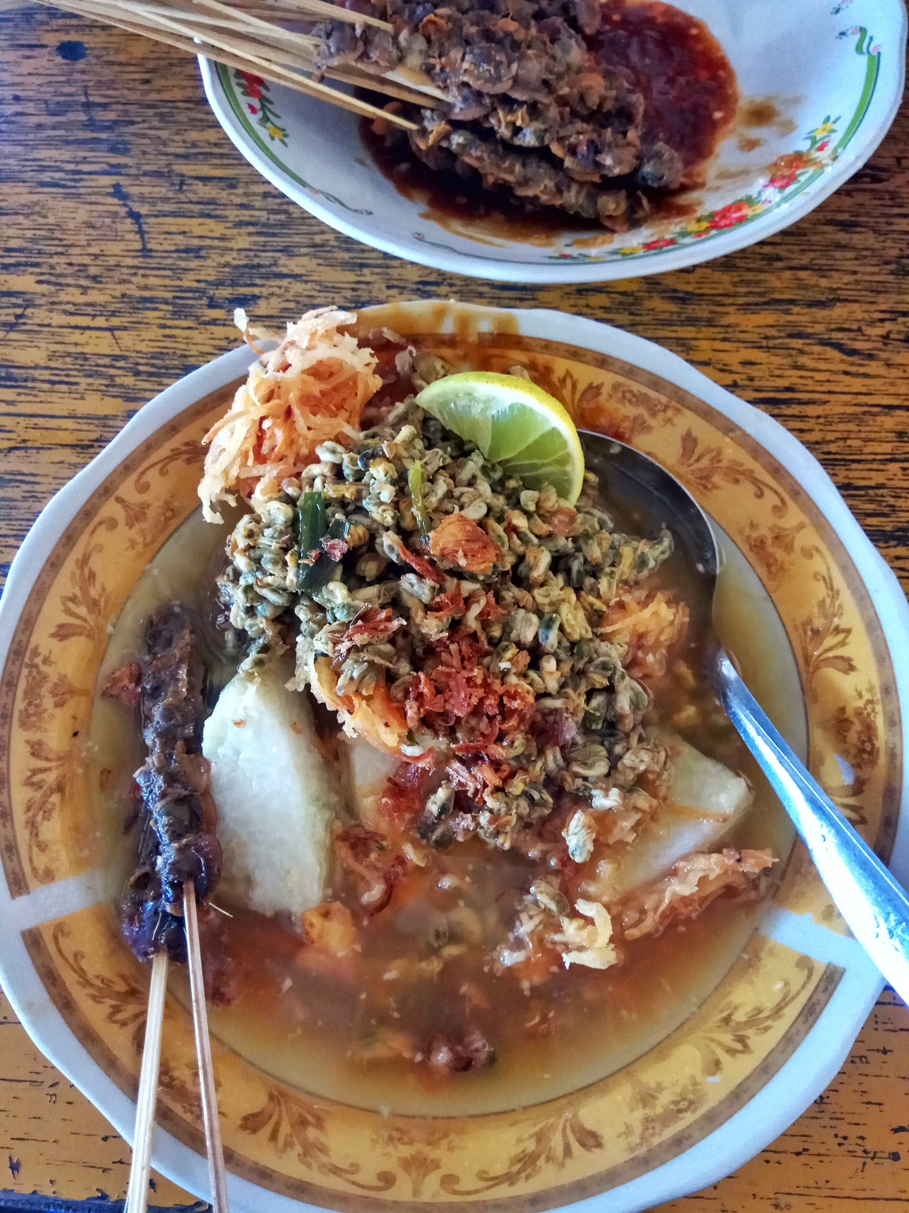 oyster soup and rice cake